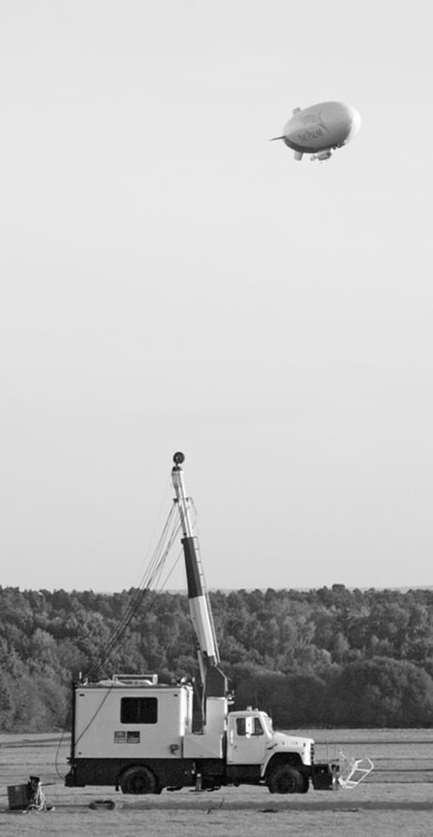 The Spirit of Dubai is billed (2006) as the worlds largest commercial passenger airship and is used to advertise The Palm Jumeirah - the worlds largest man-made island, residential complex. Here the airship approaches its motorised mooring mast.